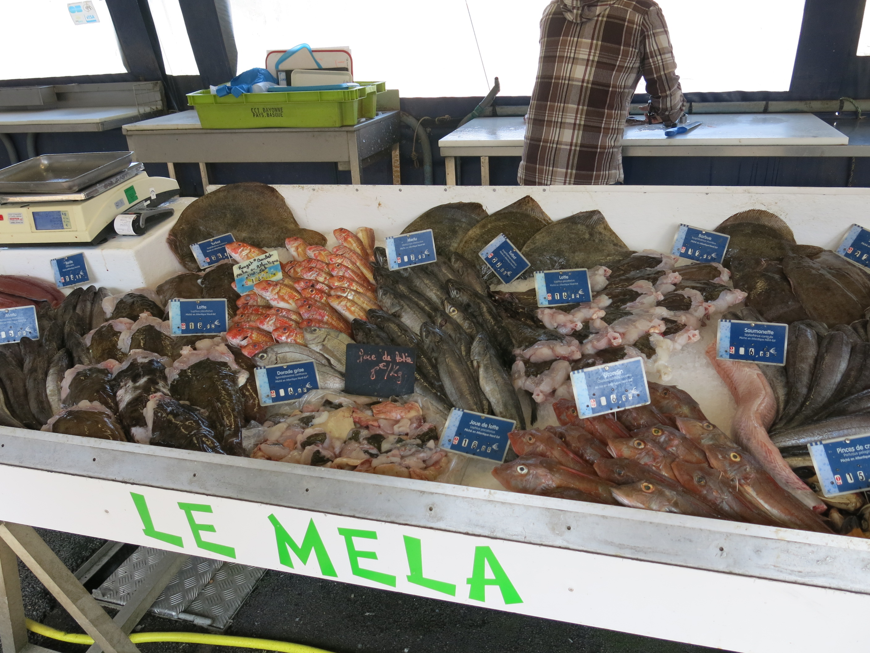 Direct sales of fish on the port of Capbreton (Landes, France).